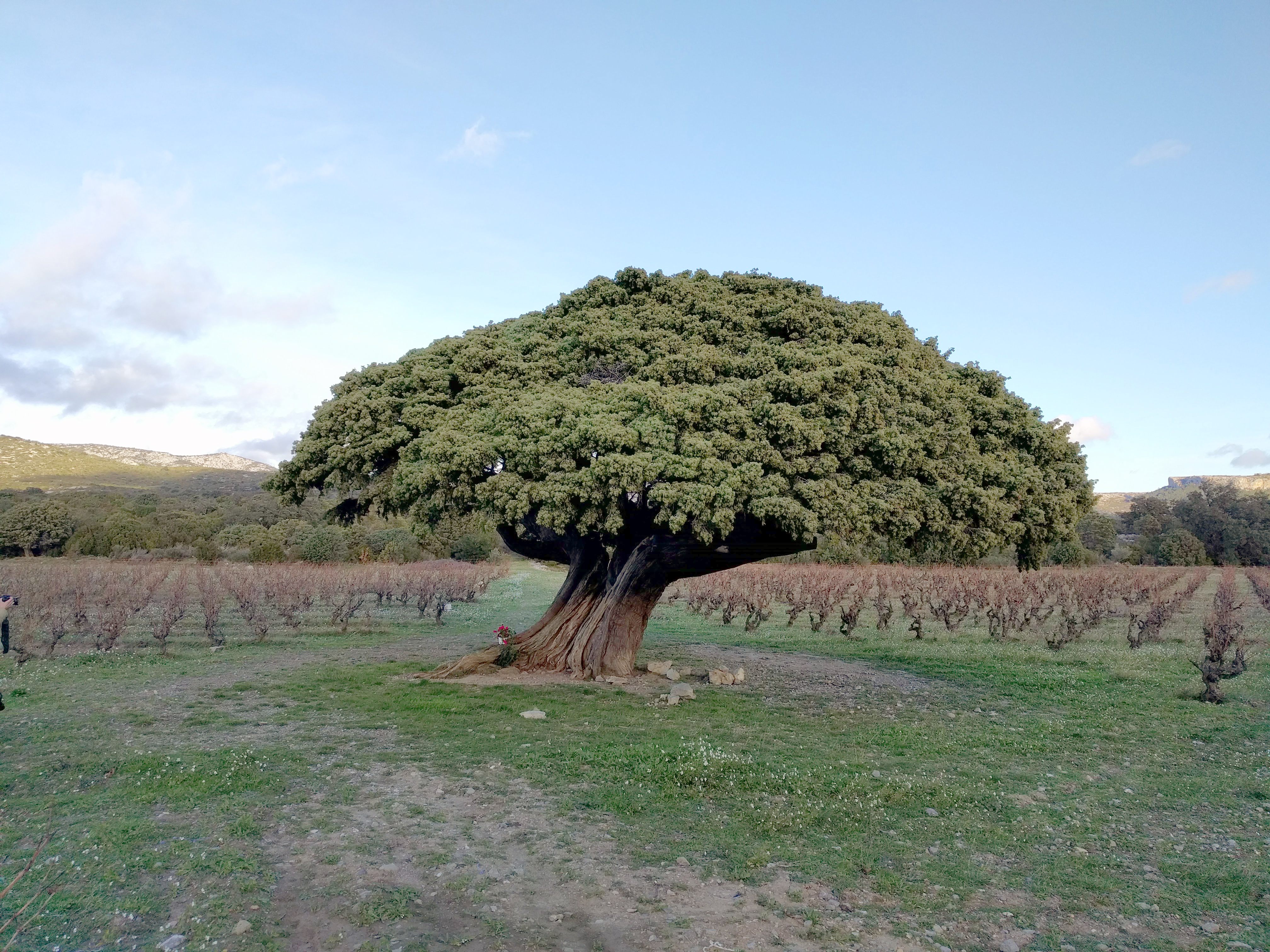 Photography of Prickly Juniper in Opoul (Pyrénées-Orientales), it's a massive tree trunk thick and it's surrounded by vineyards.